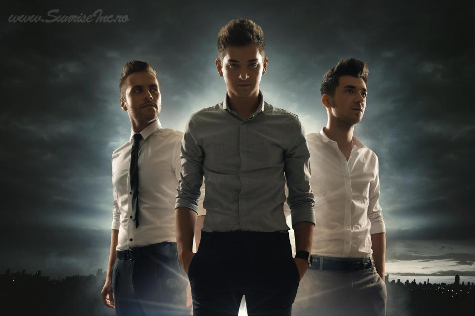 the band